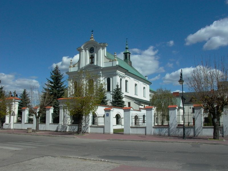 Immaculate Conception church in Góra Kalwaria